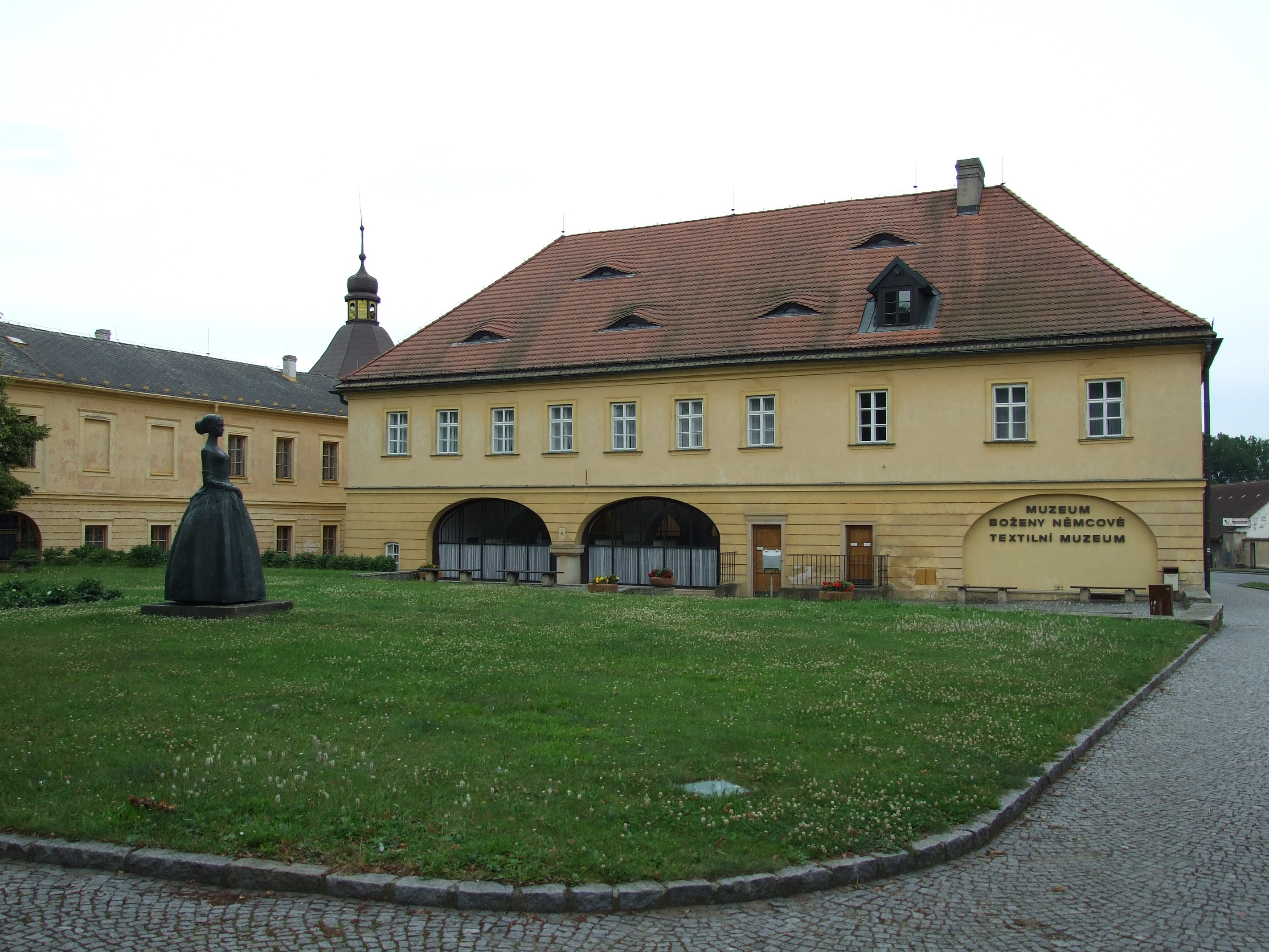 Muzeum Boženy Němcové